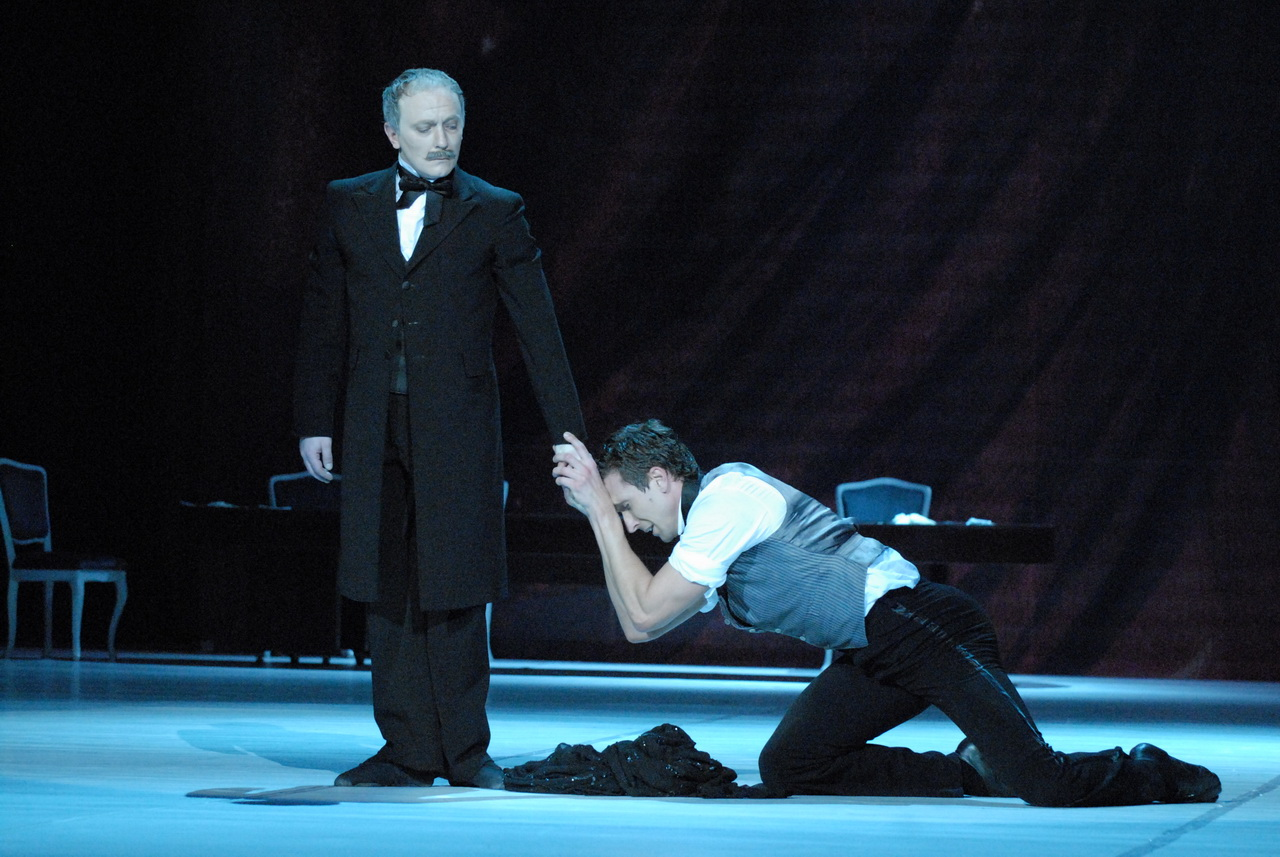 "The Lady with the Camellias" a novel by Alexandre Dumas fils, ballet composed by Giuseppe Verdi; libretto writter, director and author of choreography Krunislav Simić, Ballet of SNT, 2008-2009; Milan Lazic, Milan Rus Srpski (latinica): "Dama s kamelijama", novela Aleksandra Dime sina, balet komponovao Đuzepe Verdi; pisac libreta, reditelj i koreograf: Krunislav Simić, Balet SNP,2008-2009; Milan Lazic, Milan Rus Српски (ћирилица): "Дама с камелијама", новела Александра Диме сина, балет компоновао Ђузепе Верди; писац либрета, редитељ и кореограф: Крунислав Симић, Балет СНП, 2008-2009; Милан Лазић, Милан Рус